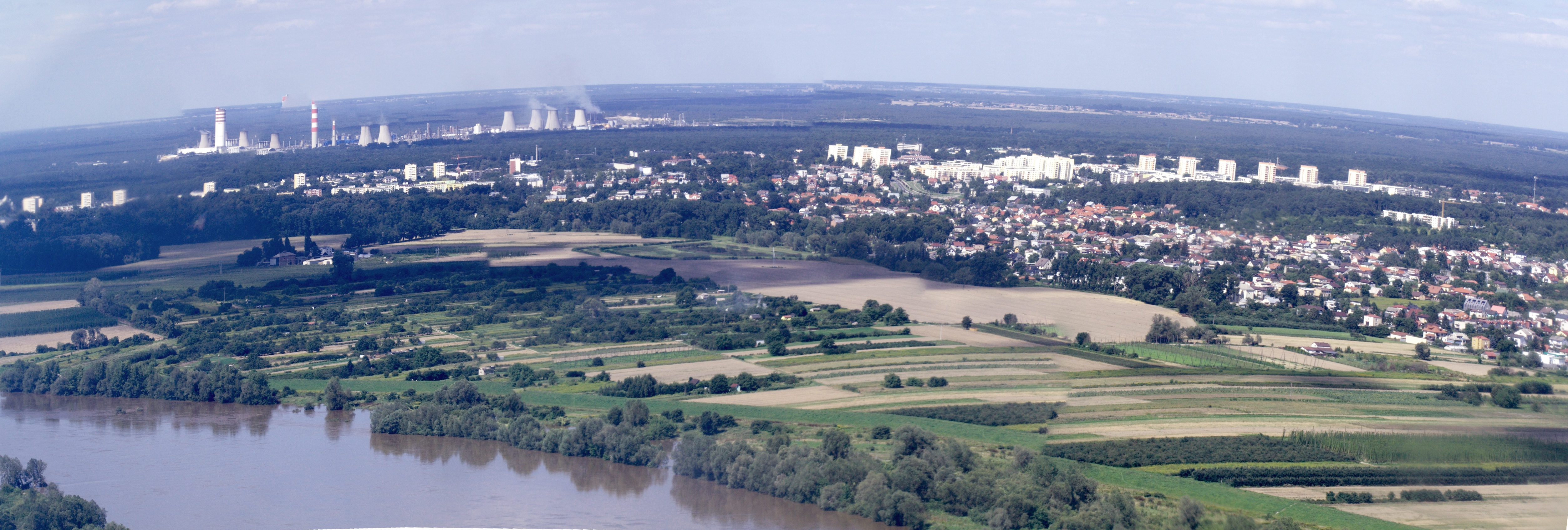 Aerial view of Puławy city, Poland, from Vistula river towards NE direction